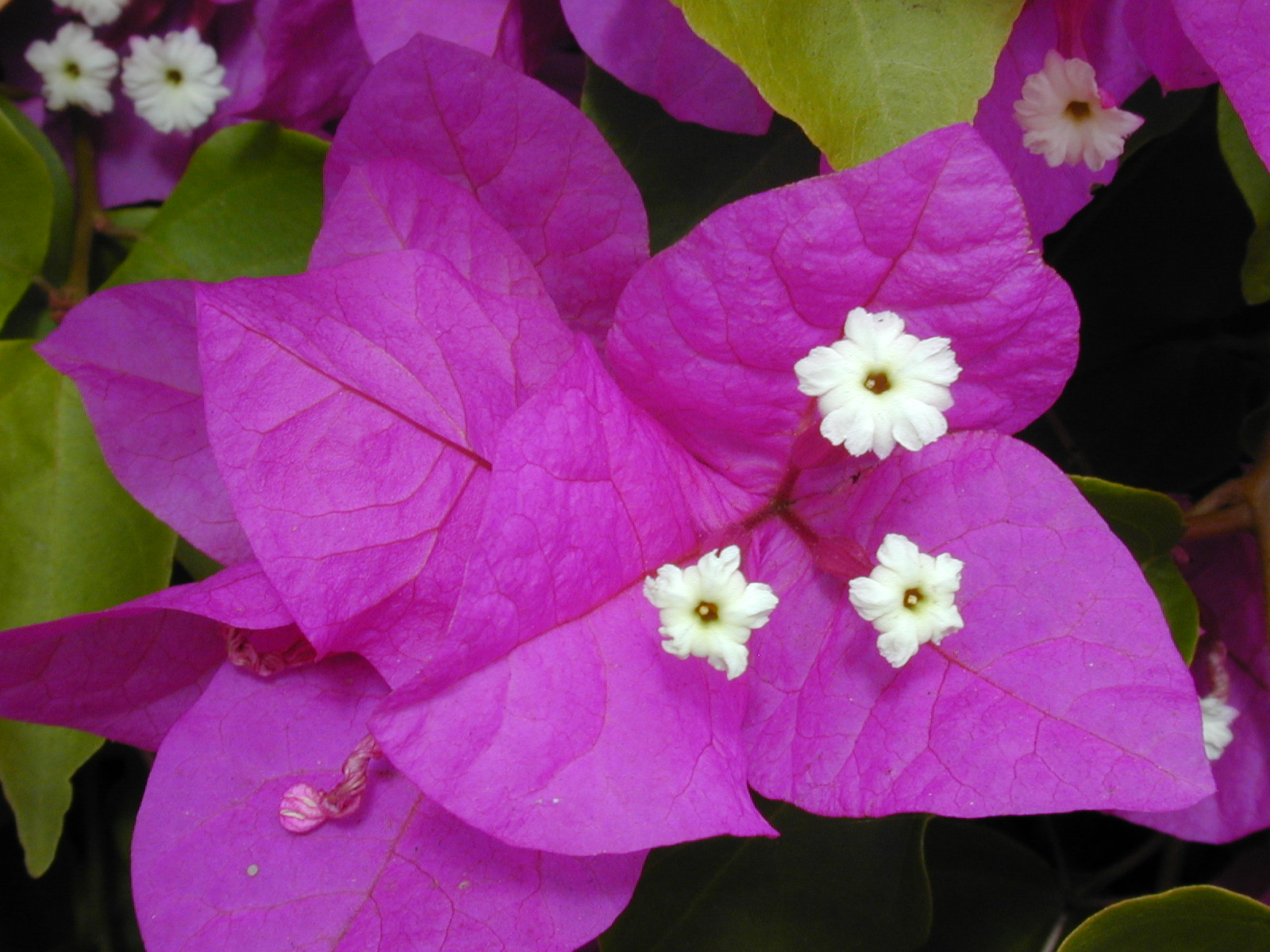 Bougainvillea spectabilis (flowerings). Location: Maui, Kula